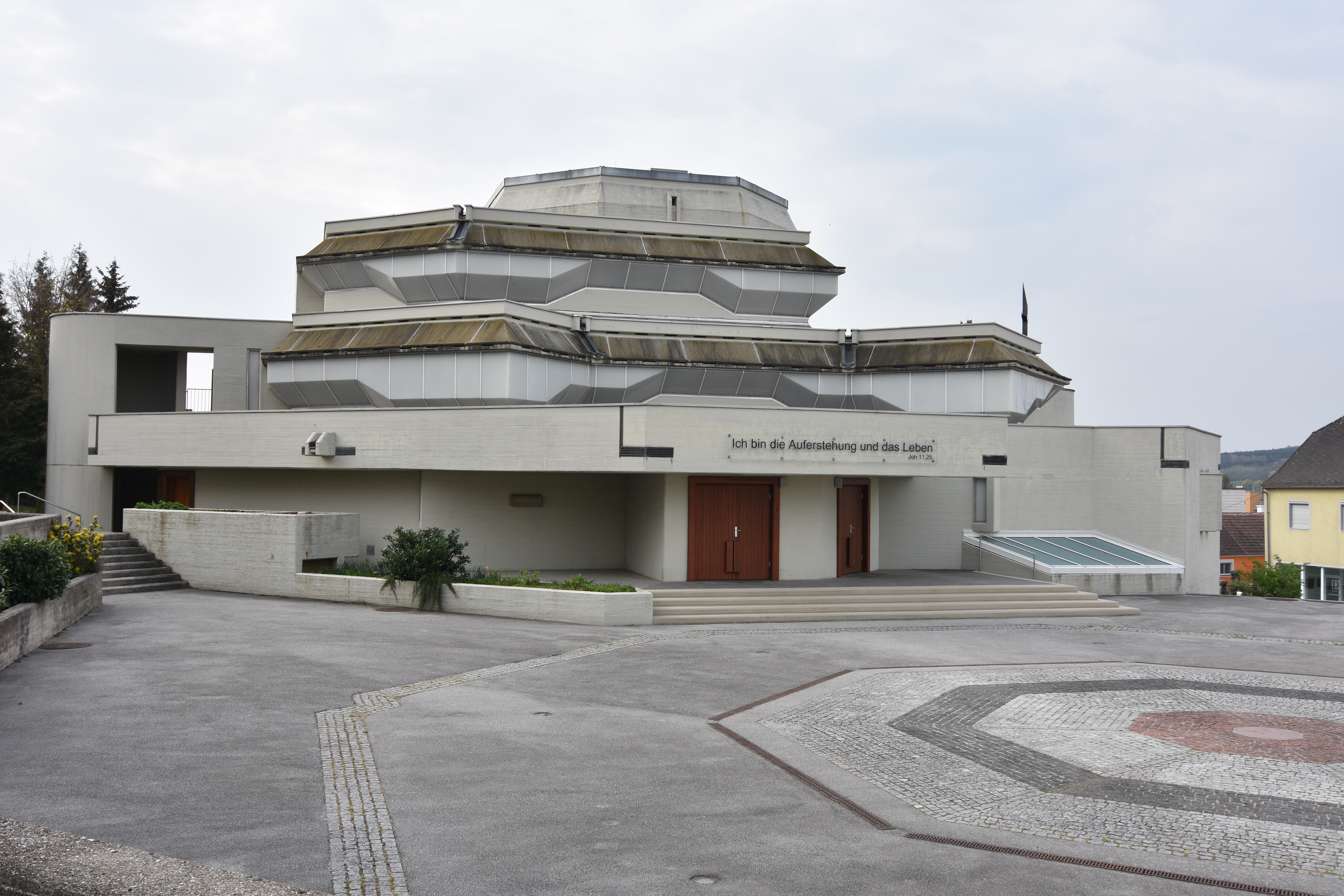 Church Oberwart